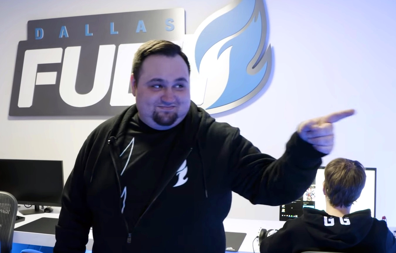 Head coach of the Dallas Fuel Aaron "Aero" Atkins. Cropped screenshot.